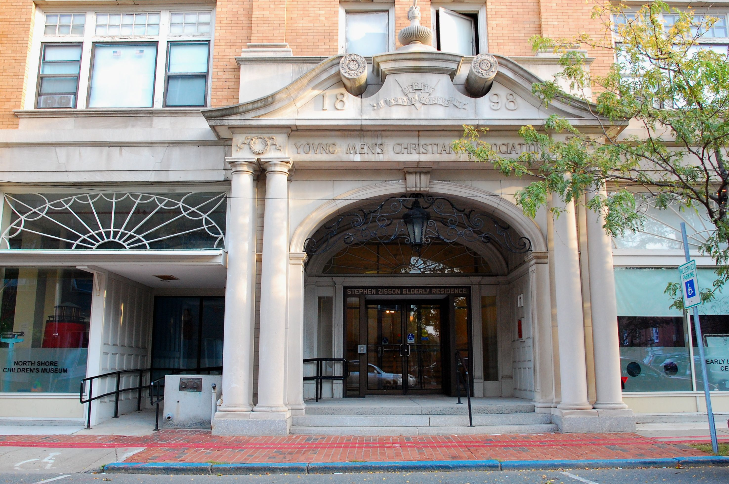 Formal entrance to the Salem YMCA building, est. 1898.